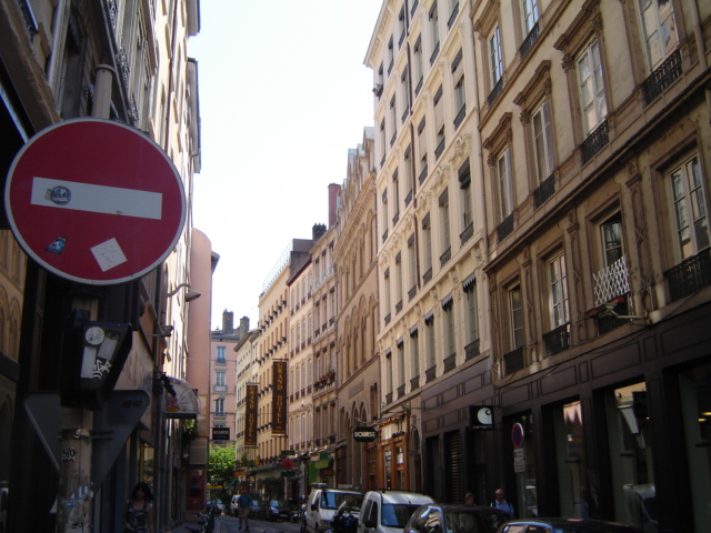 Part of the Rue Lanterne, just before the Rue de Constantine, in the 1st arrondissement of Lyon